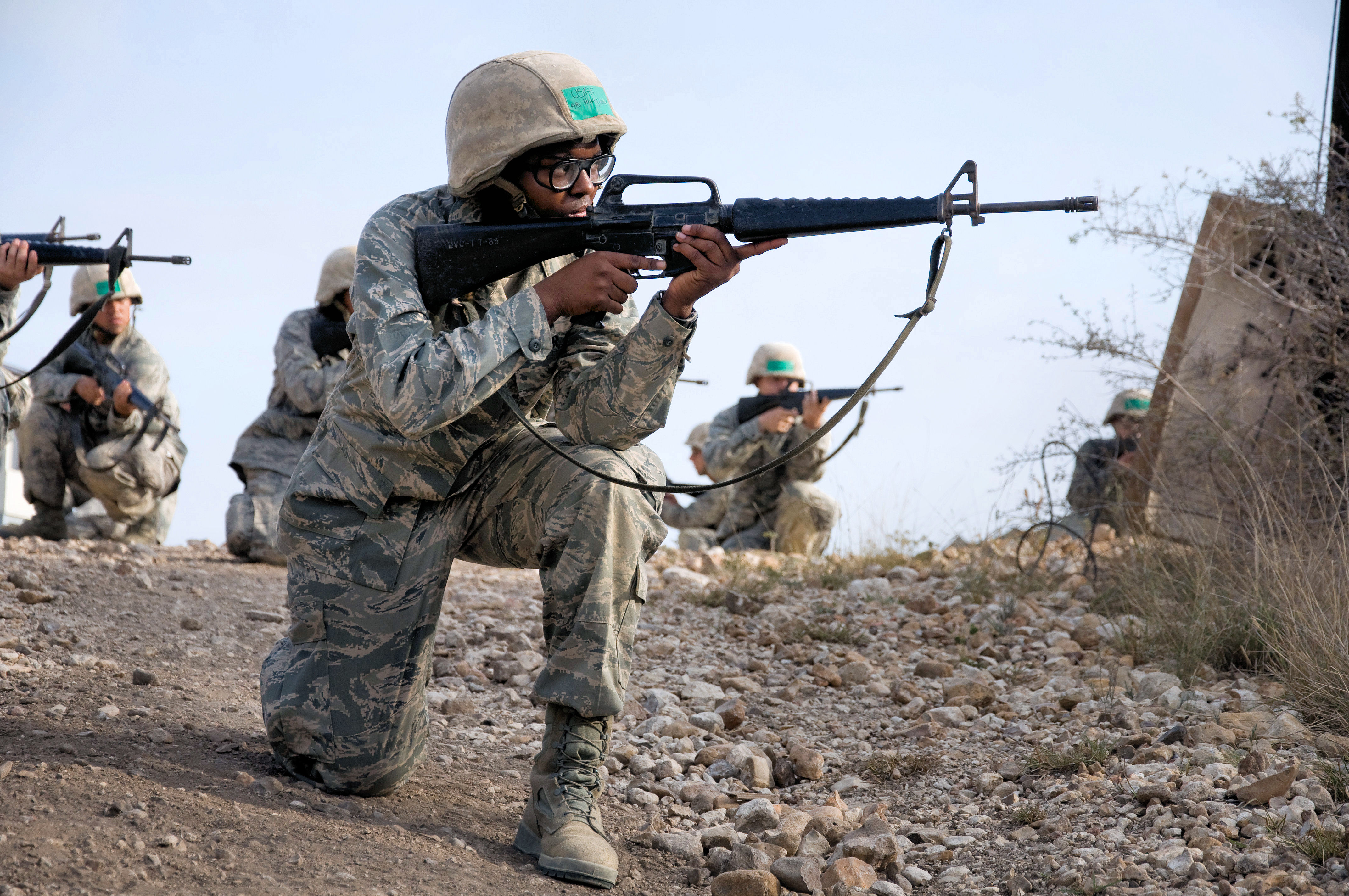 37th Training Wing - BMTS - Trainees provide security for their team during the Tactical Drill Mission at BEAST. (U.S. Air Force Photo/Melinda Mueller)